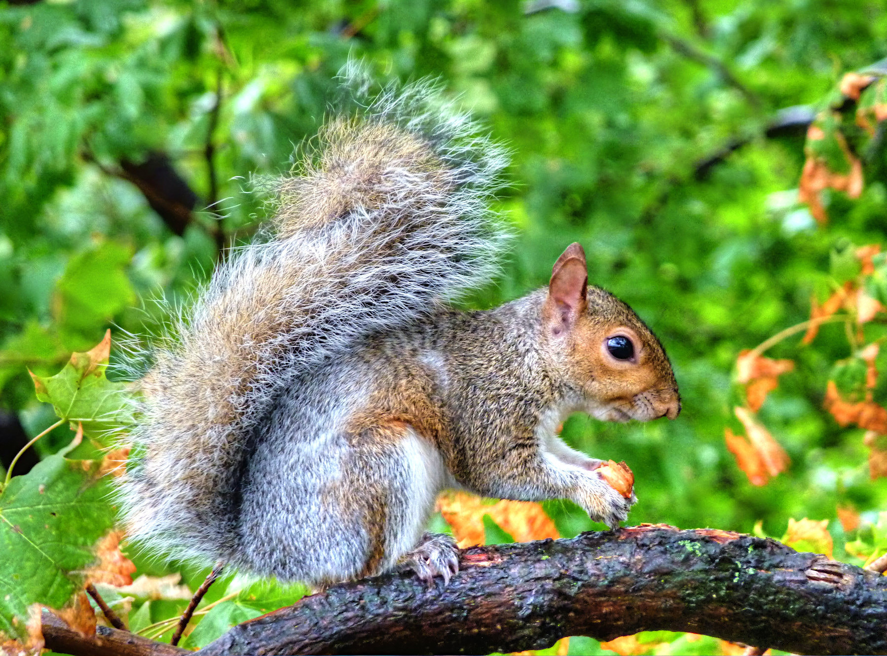 500px provided description: HDR Squirrel with Acorn. West Point, NY. [#animal ,#photos ,#wildlife ,#posing ,#posed ,#HDR ,#Photography ,#NY ,#New York ,#Squirrel ,#West Point ,#HDR Photography ,#USMA ,#PJ8 Photography ,#PJ8]